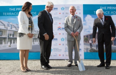 Prince Charles visits Bowden SA